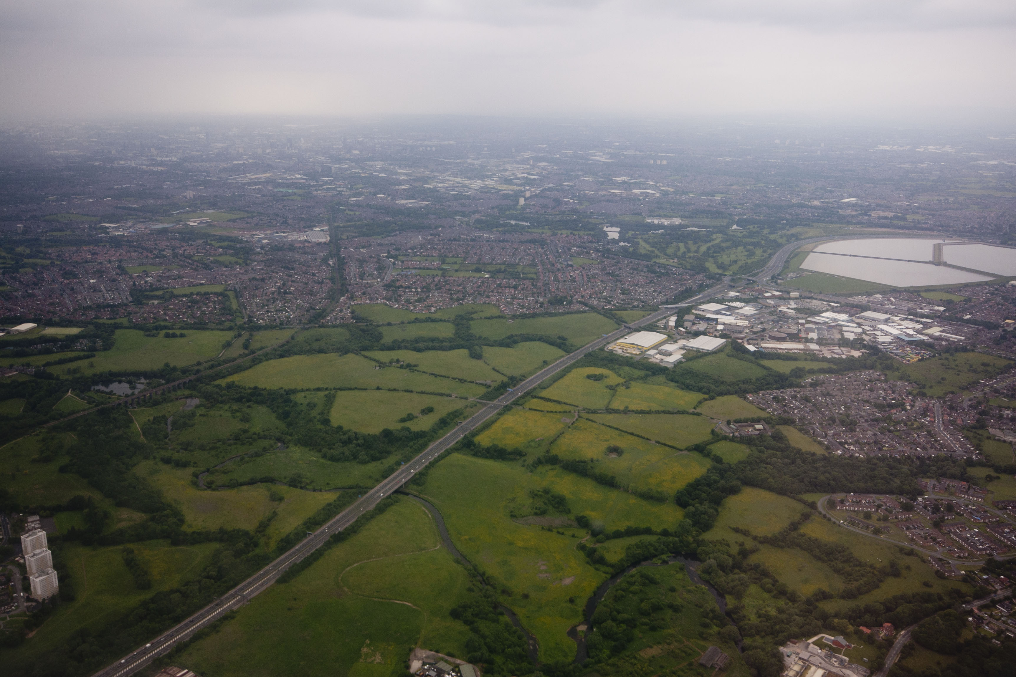 Reddish Vale and the M60, viewed from the southeast